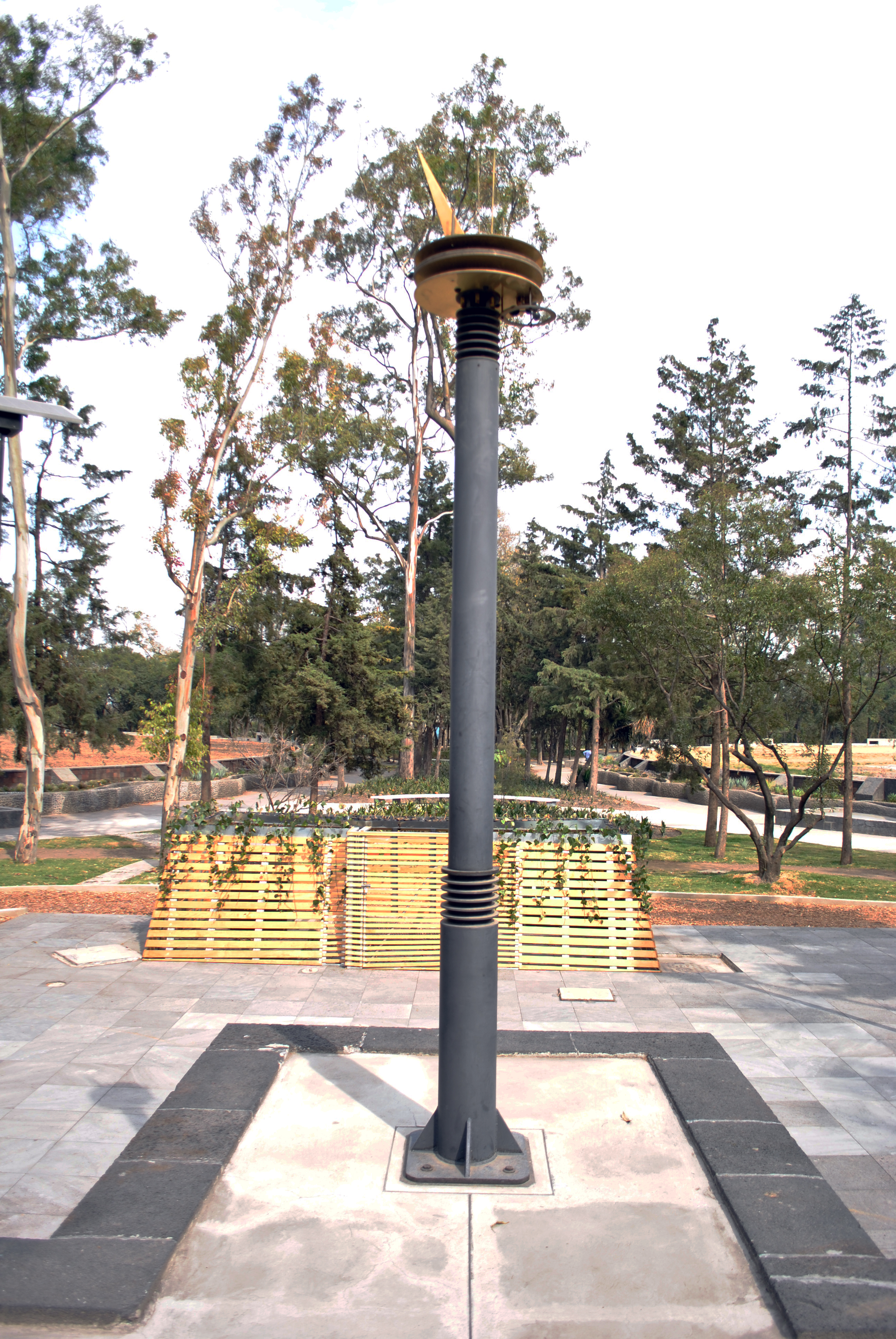 Lambdoma Chamber element. Dolores Carcamo. Bosque de Chapultepec, Second Section, Mexico City.